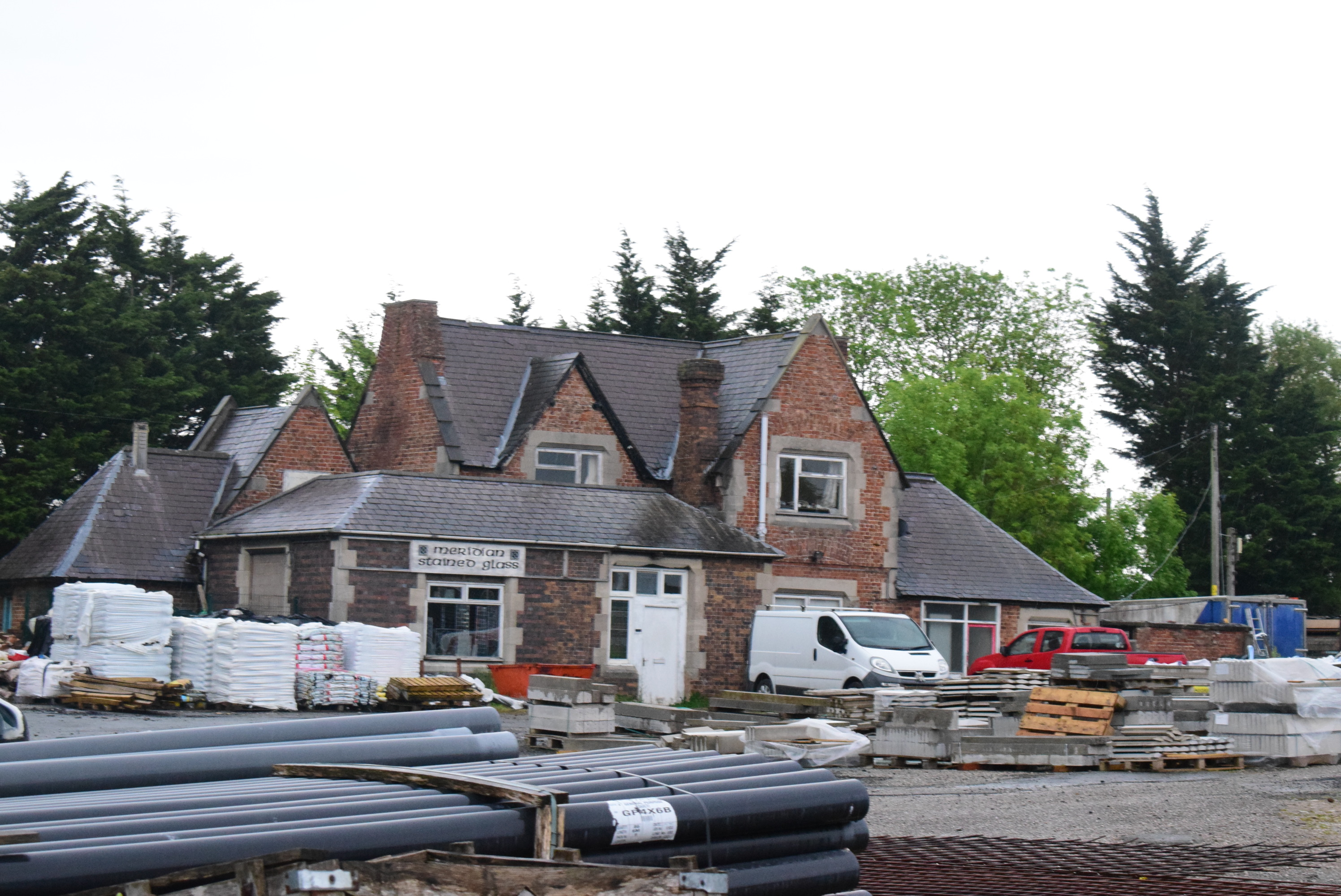 My own